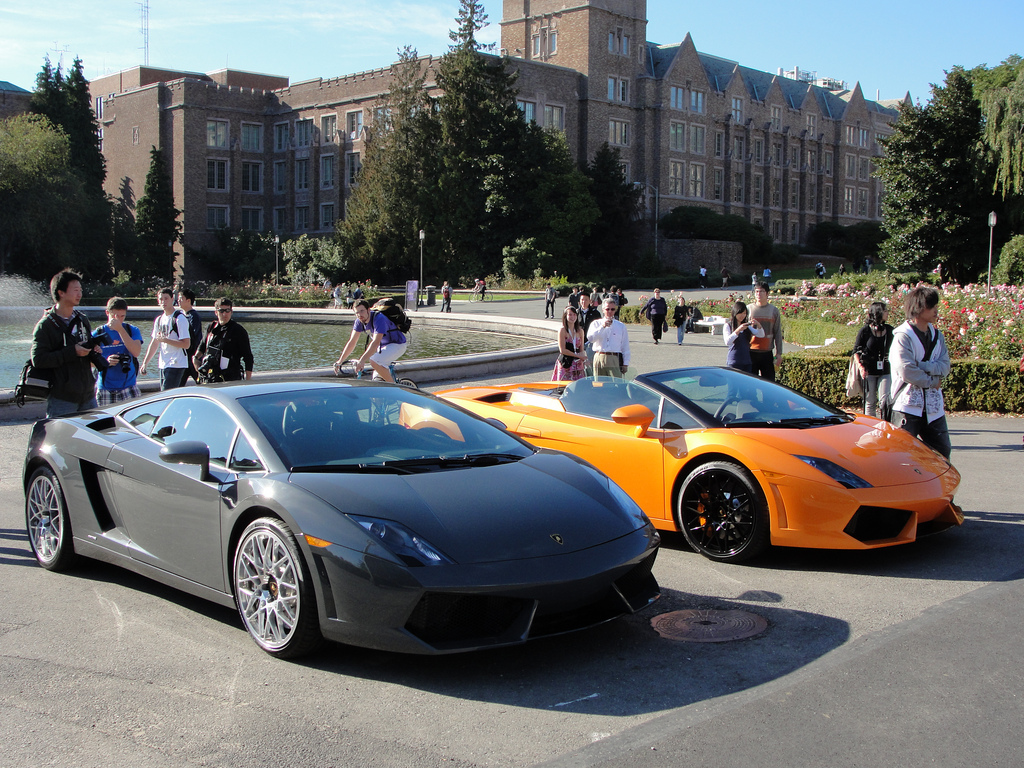 University of Washington